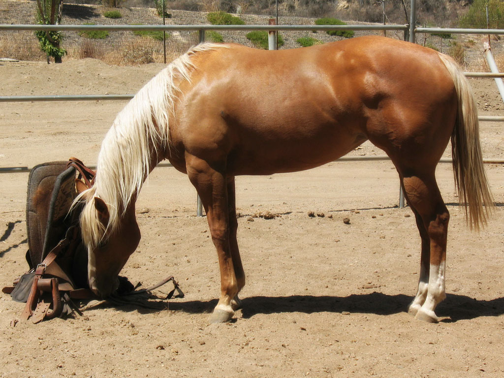 American quarter horse. This horse is so gorgeous. I think she would saddle herself if she could just figure it out!